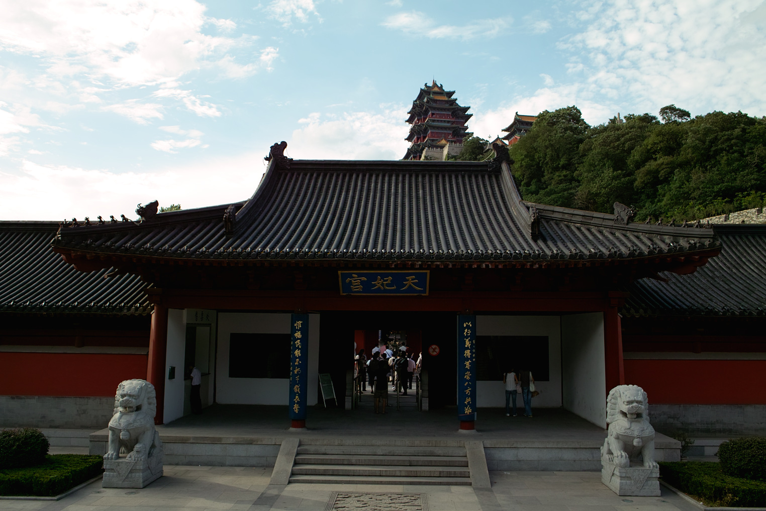 Tianfei Palace, Nanjing